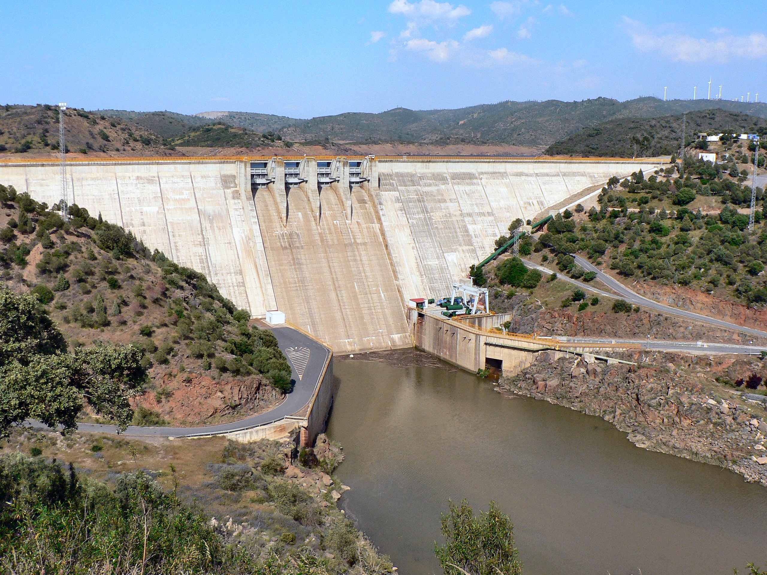 Chanza reservoir on the river Chanza, Pomarão, Beja, Alentejo, Portugal.